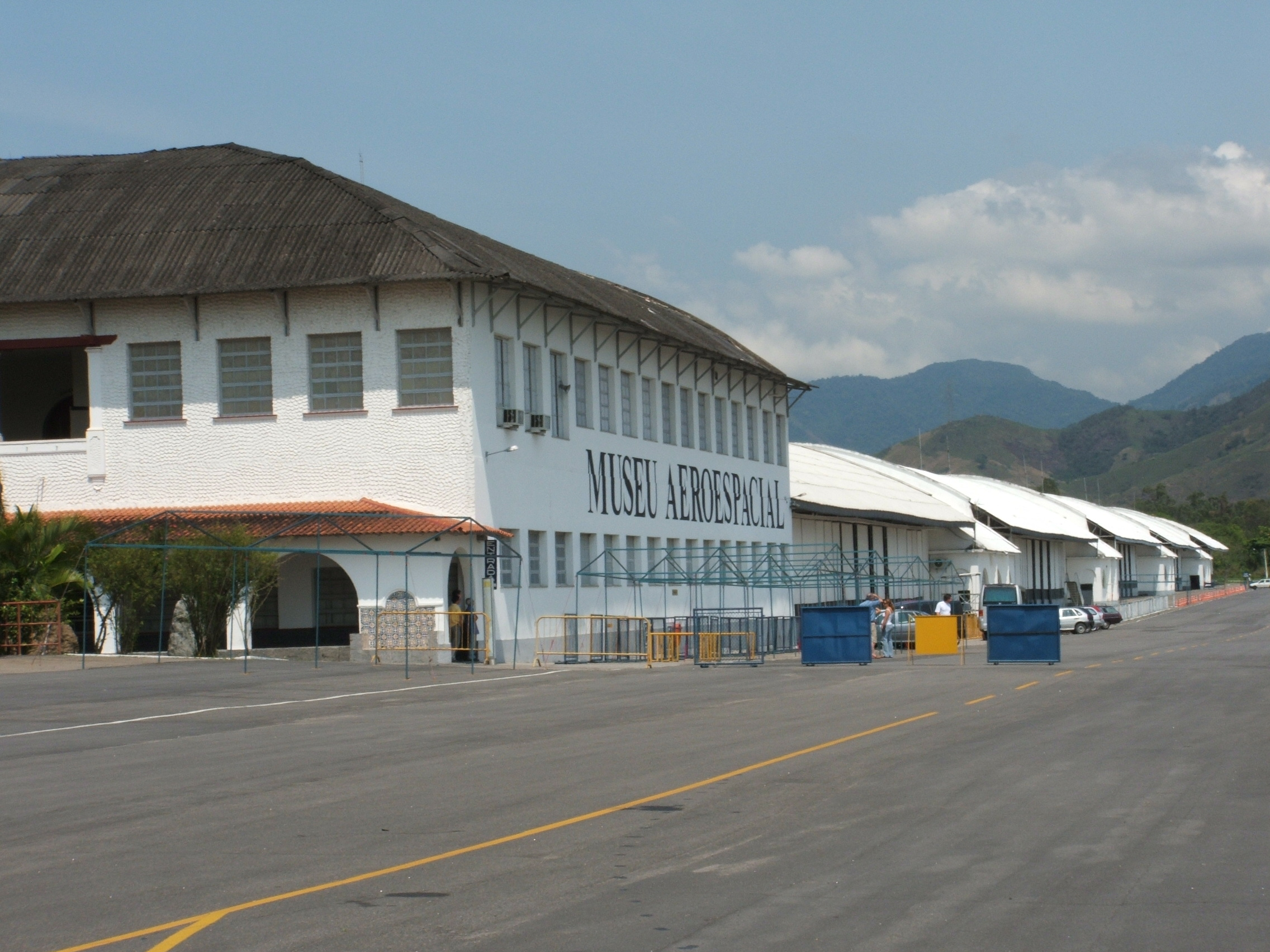 Front view of the MUSAL, Airspace Museum in Rio, Brazil